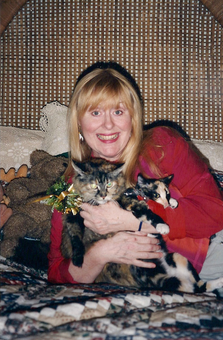 Self photograph of Barbara Lang (Broadway actress)